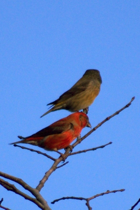 Common Crosbill